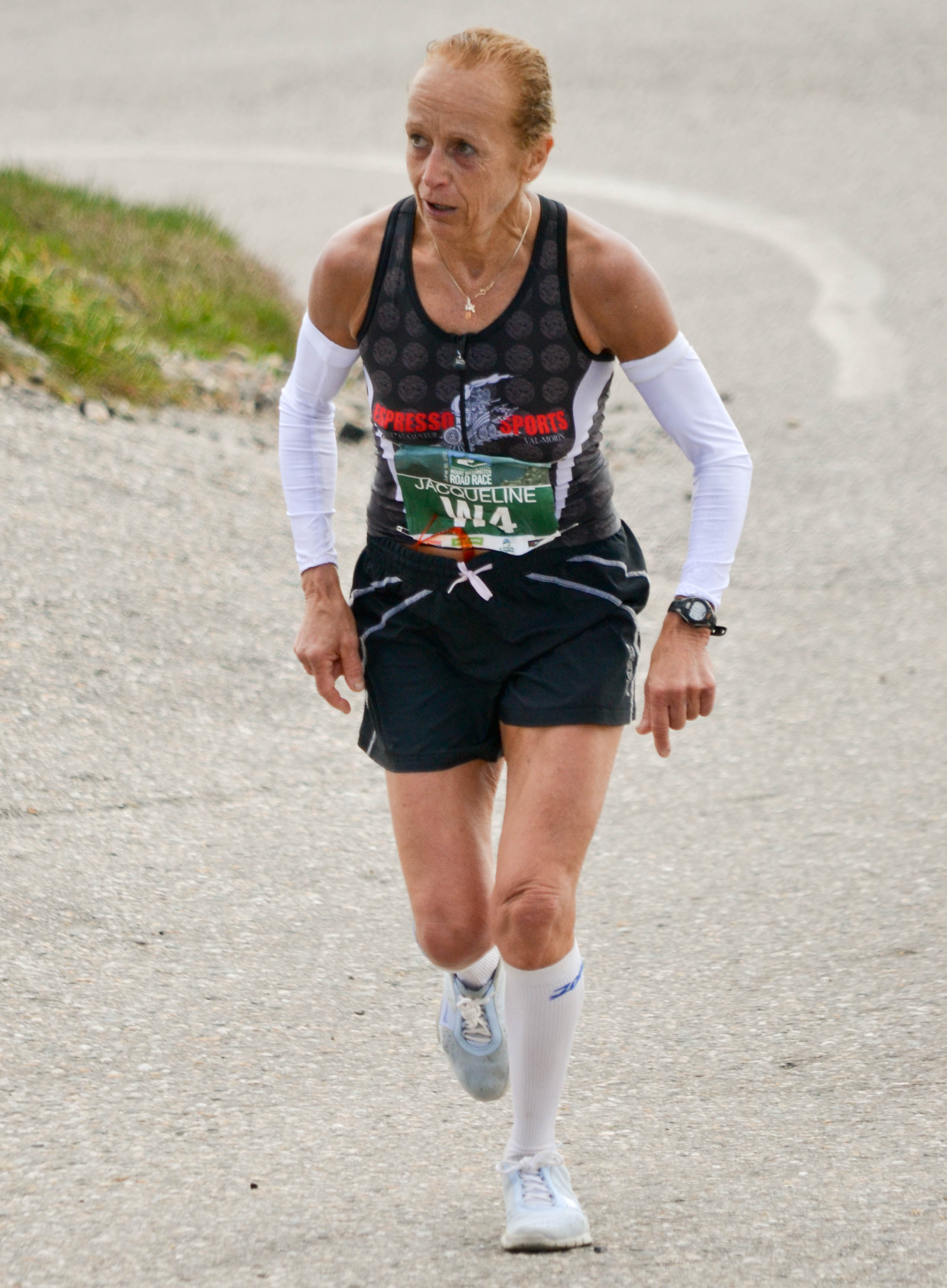 Jacqueline Gareau at 2012 Mount Washington Road Race